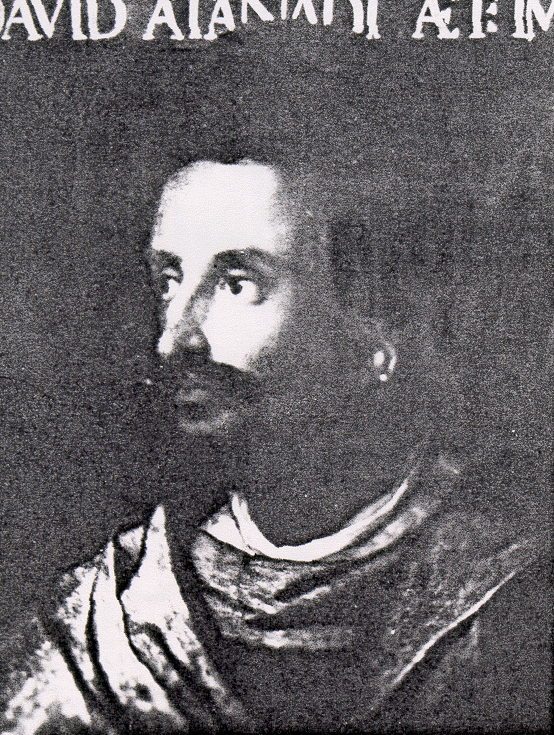 Black and white photo of contemporary portrait of Lebna Dengel, Emperor of Ethiopia (1530s) (From Serie gioviana, Uffizi, Florence)